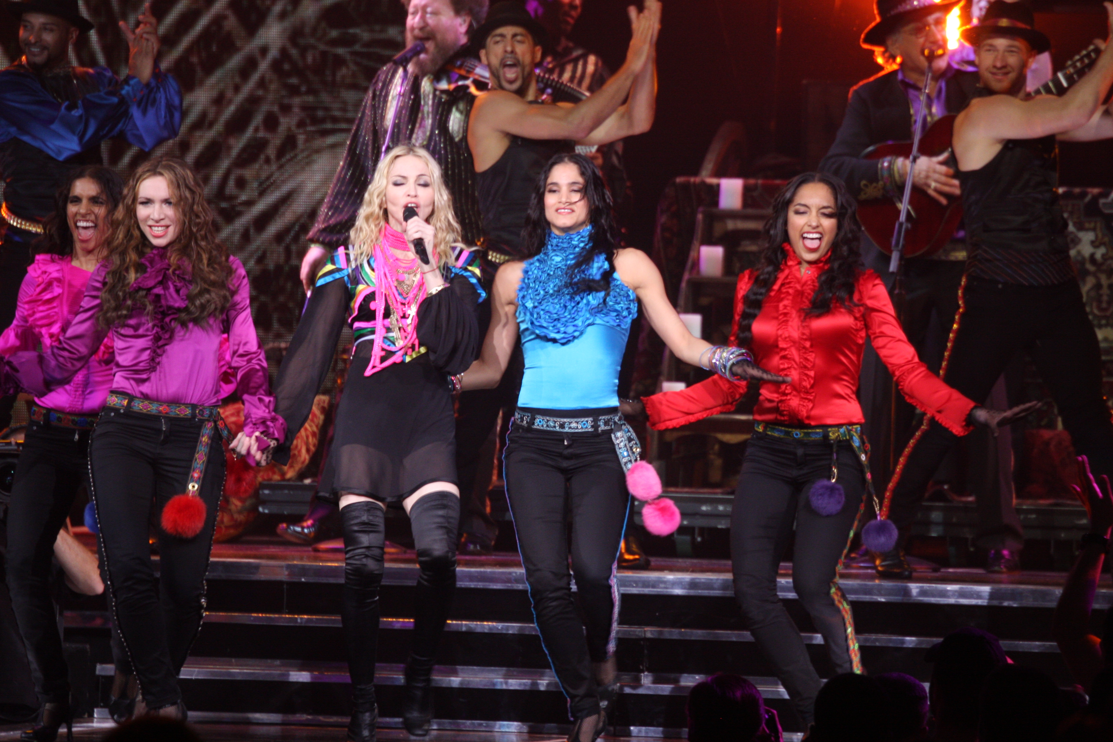 La Isla Bonita Sticky & Sweet Tour 2008